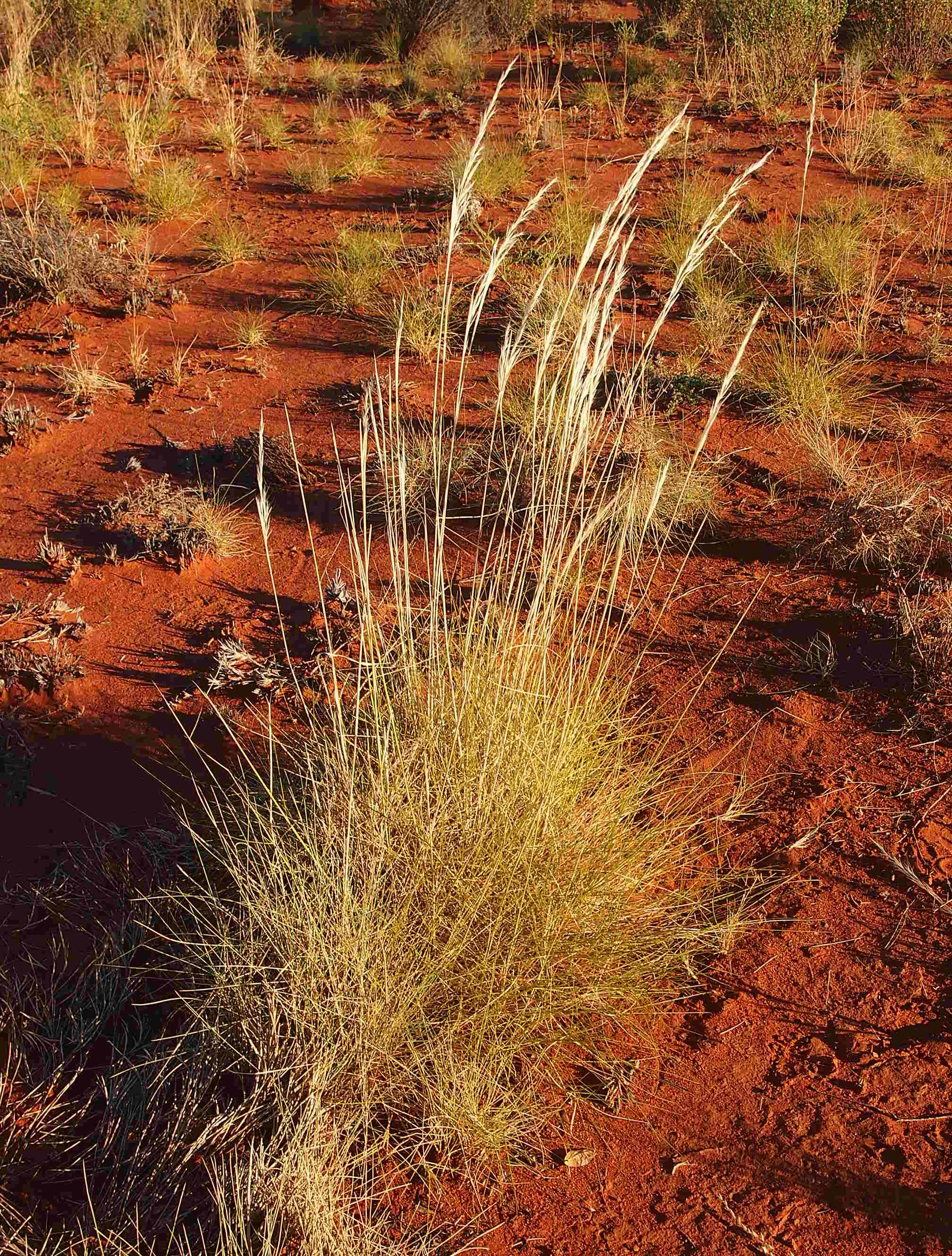 Triodia schinzii habit